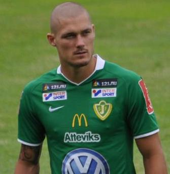 Pär Cederqvist, Jönköpings Södra IF